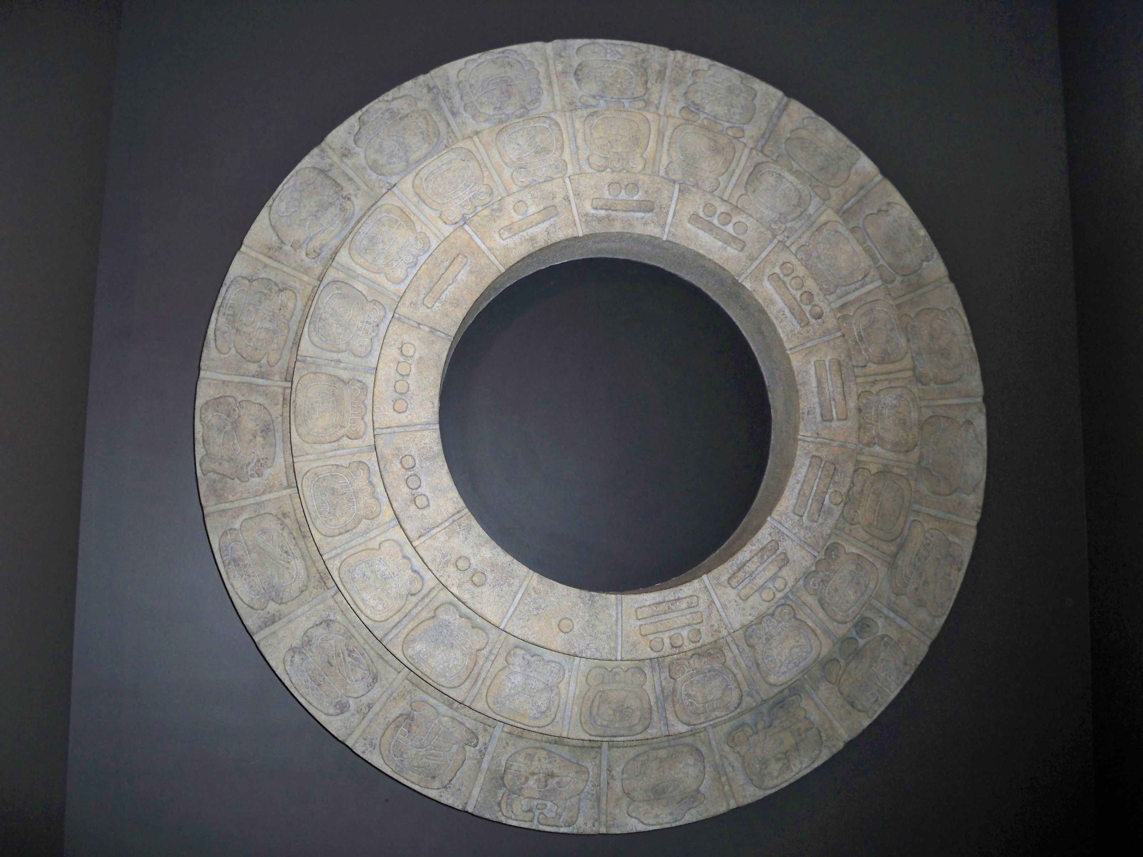 Stone version of the Maya 260 calendar at the Smithsonian.